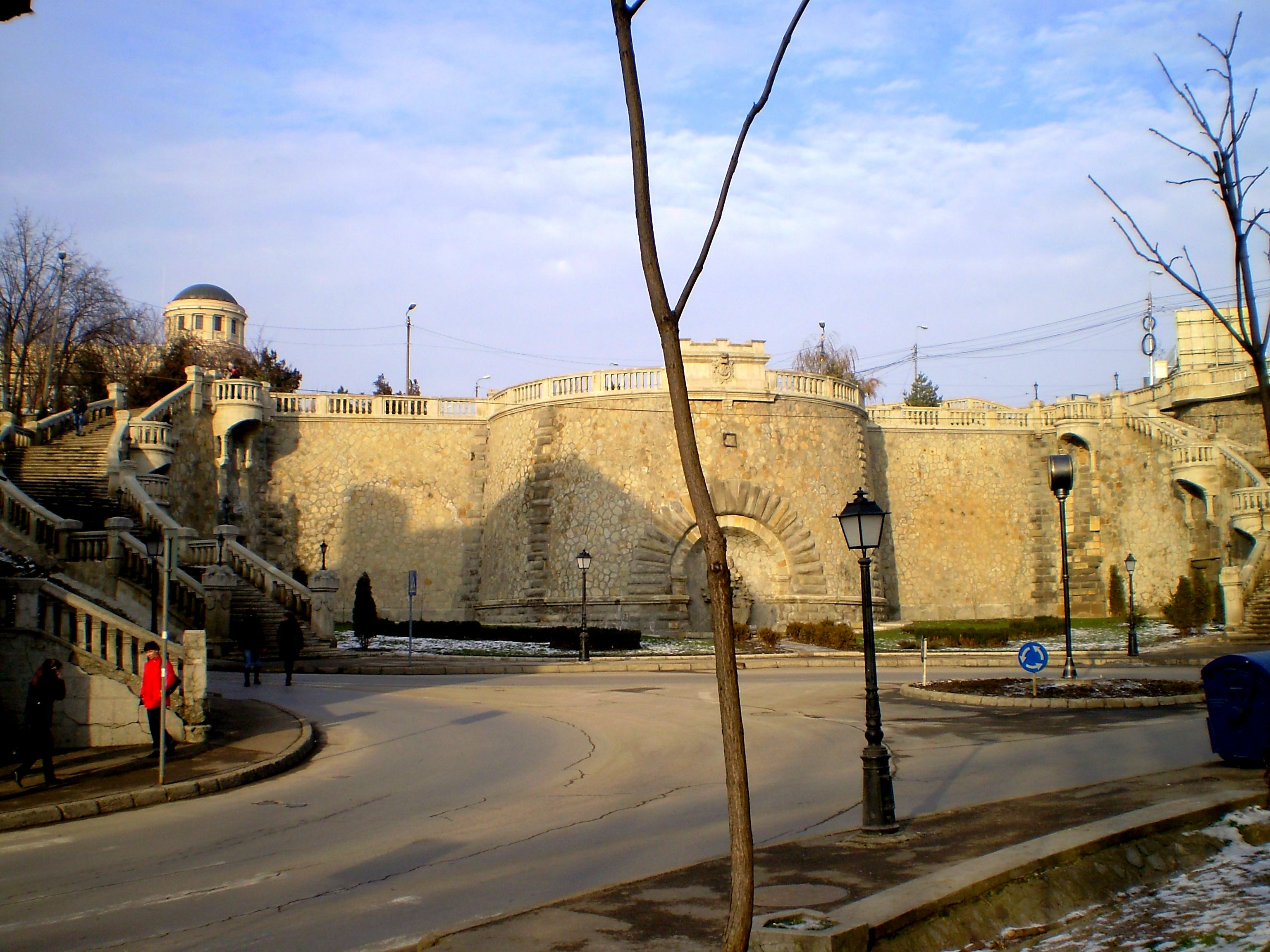 Yellow Ravine , former Elizabeth Esplanade , Iaşi ,RomaniaRomână: Râpa Galbenă , fosta Esplanadă Elisabeta , Iaşi , România